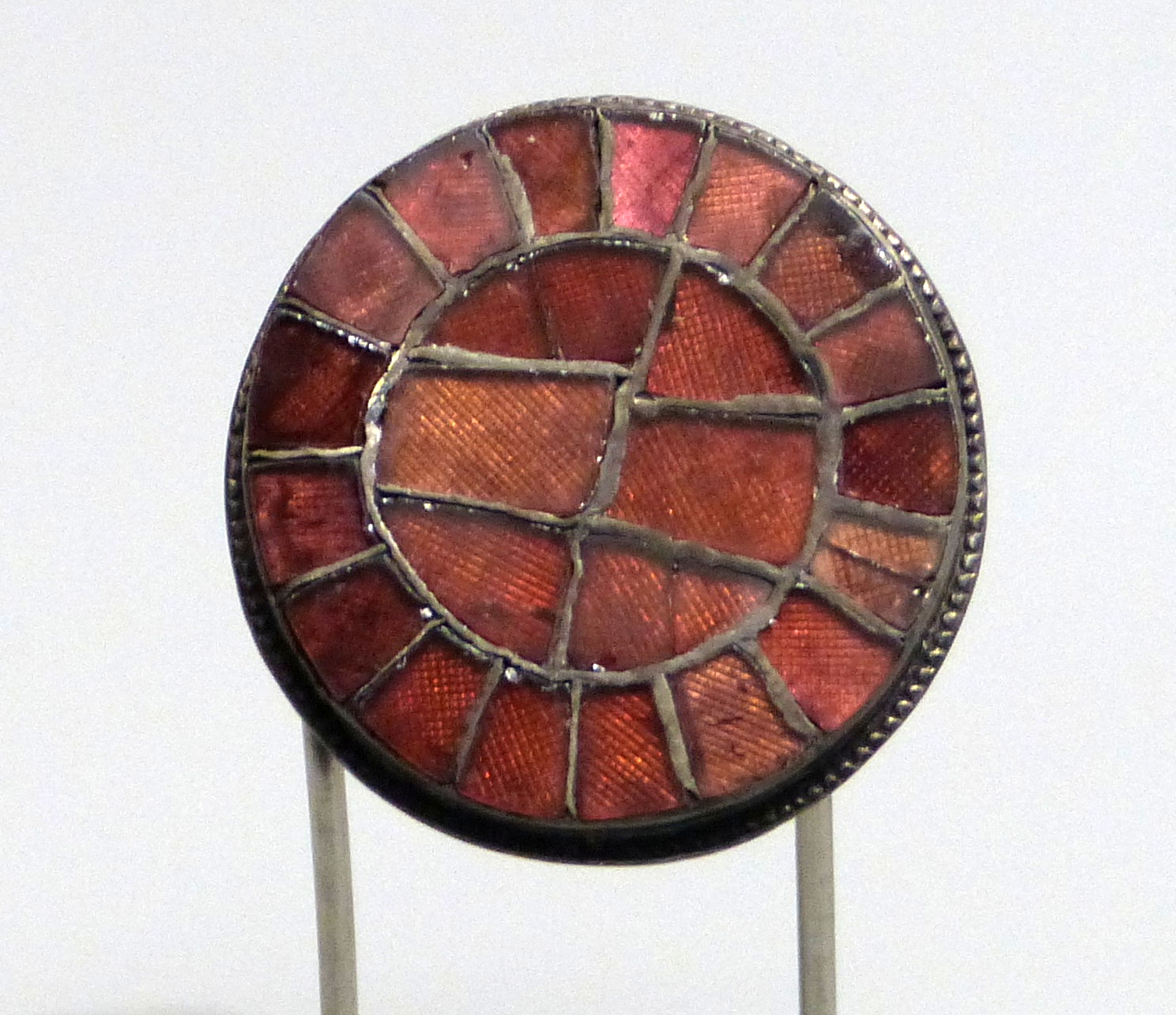 Landau an der Isar ( Lower Bavaria ). Archaeological Museum of Lower Bavaria: Almandine disc fibula, from a Bavarii grave 44 in Peigen ( Pilsting )